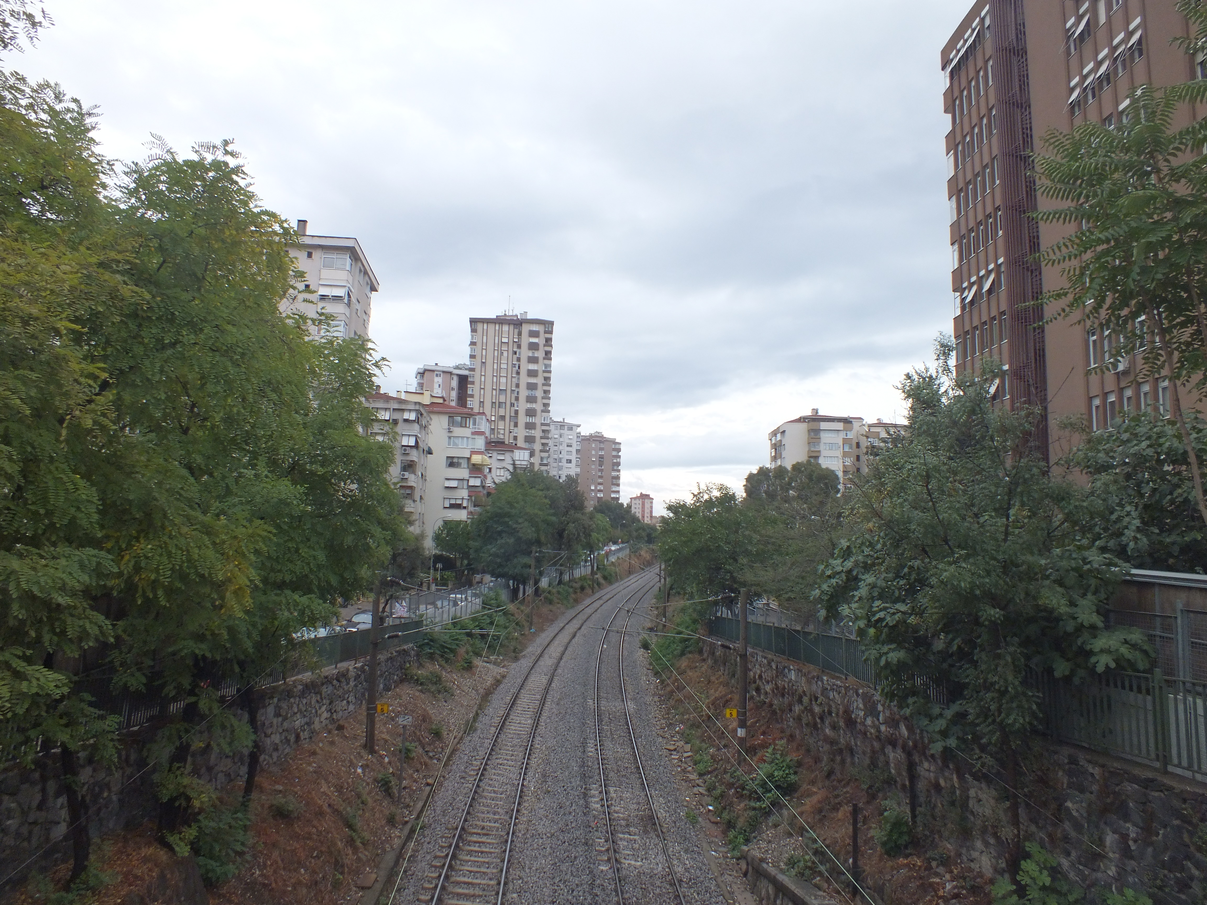 Looking east from the Goztepe overpass.